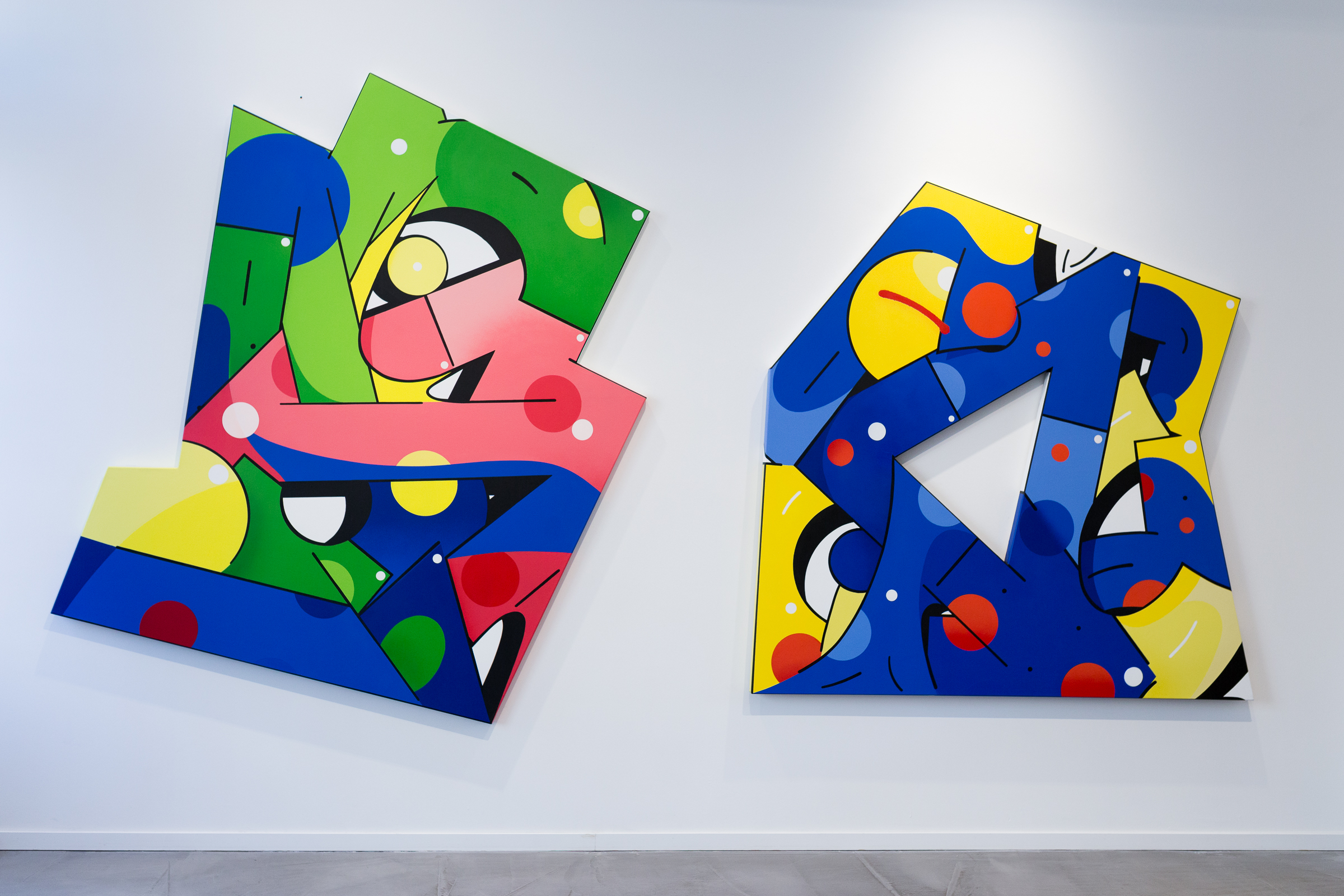 MOSES & TAPS™ – Artwork, Spray Paint on Shaped Canvas, ca. 220 x 190 cm/180 x 180 cm, 2018